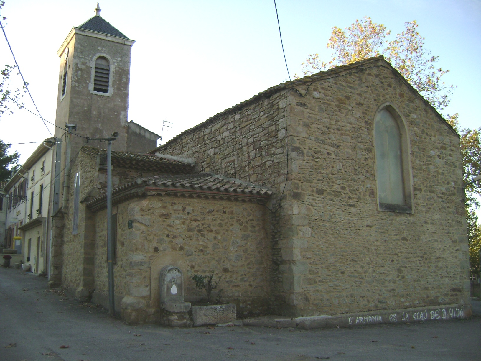 Saint Félix church of Montséret, Aude, France